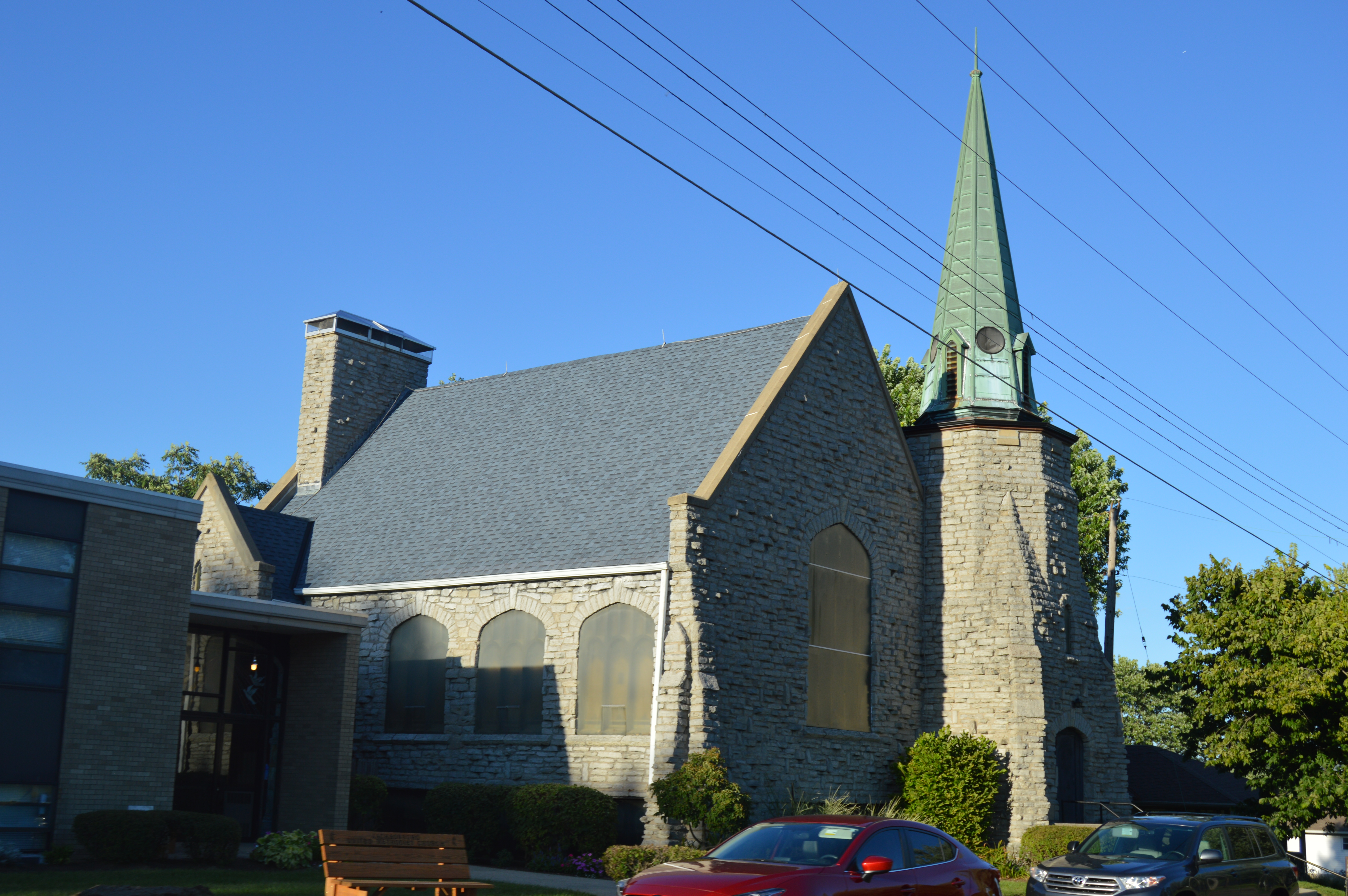 Western side and front of the Jacksonburg United Methodist Church, located at 4654 State Route 744 in Jacksonburg, Ohio, United States.